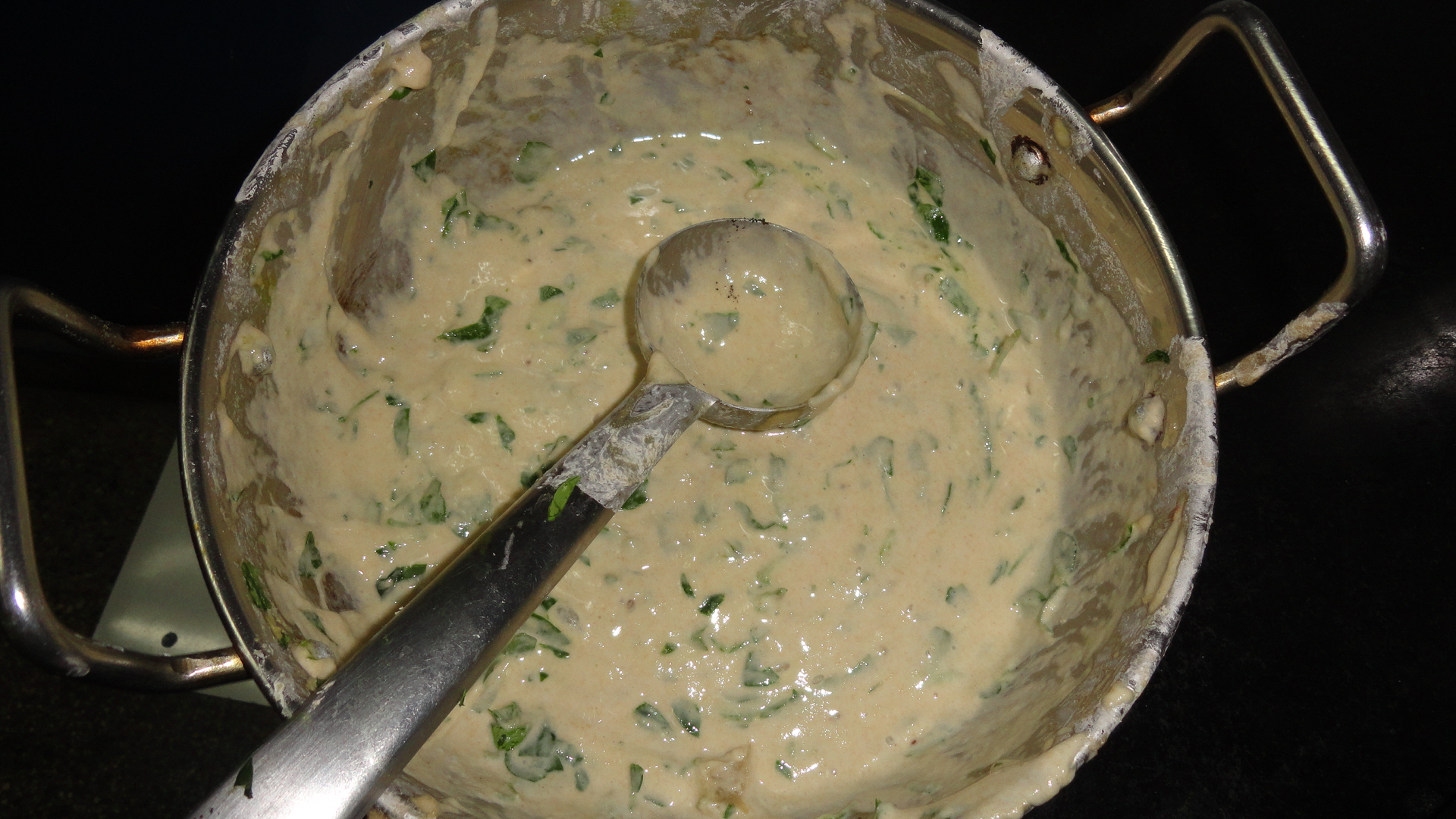 ಕನ್ನಡ: ಮೆಂತೆ ಸೊಪ್ಪು ಕಲಸಿದ ಗೋಧಿ ಸಂಪಣೆ . wheat batter mixed with fenugreek leaves for Dōse